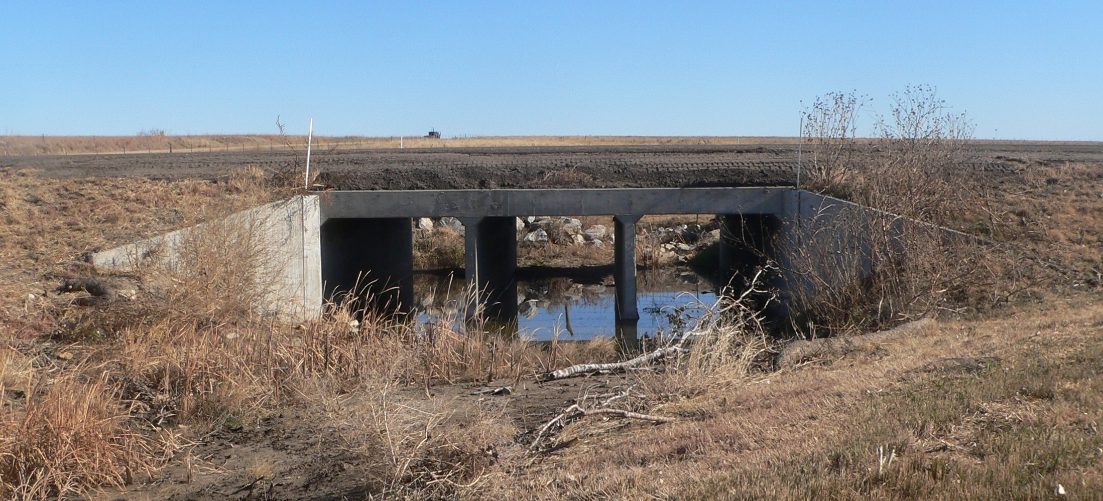 Bridge carrying county road NE 60 Ave across a dry watercourse about 100 feet south of NE 220 Rd in Barton County, Kansas. Photographed November 30, 2017. View is from the west.